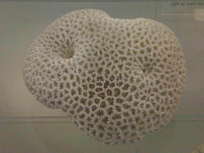 Favia sp. at the Natural History Museum in London, England.